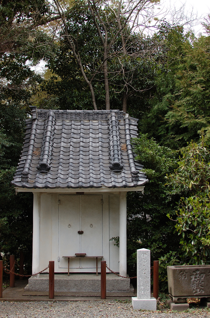 Ise-no-miya, one of inner subsidiaries of Kugenuma Kōdai-jingū. Nikon D40 + AF-S DX Nikkor 35mm f/1.8G